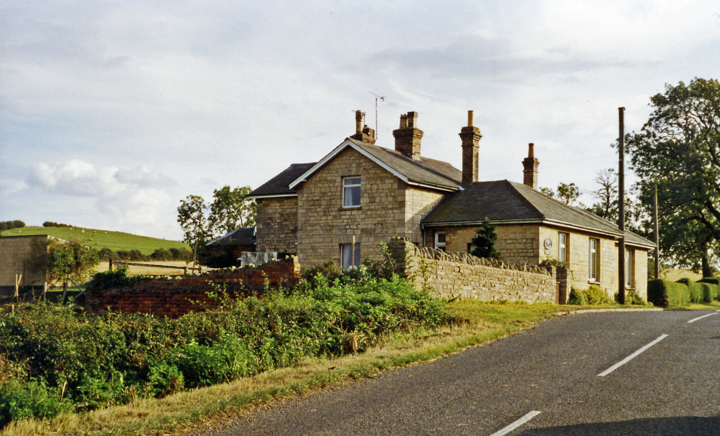 Former Ashley & Weston station. View southward, on the bridge over the ex-LNWR Rugby/Northampton - Market Harborough (to right) - Peterborough East (to left) secondary main line. The station closed to passengers on 18/6/51 (goods 1/3/63), but the route survived until 6/6/66. (See also SP7991 : Old Ashley Station at Welland Bank. by Richard Williams - but what is the Memorial Plaque) on the wall?).